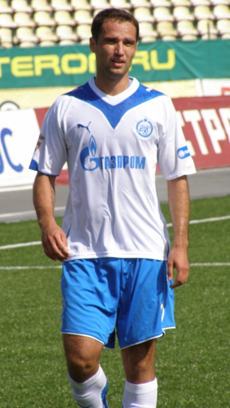 Roman Shirokov in action for FC Zenit St. Petersburg